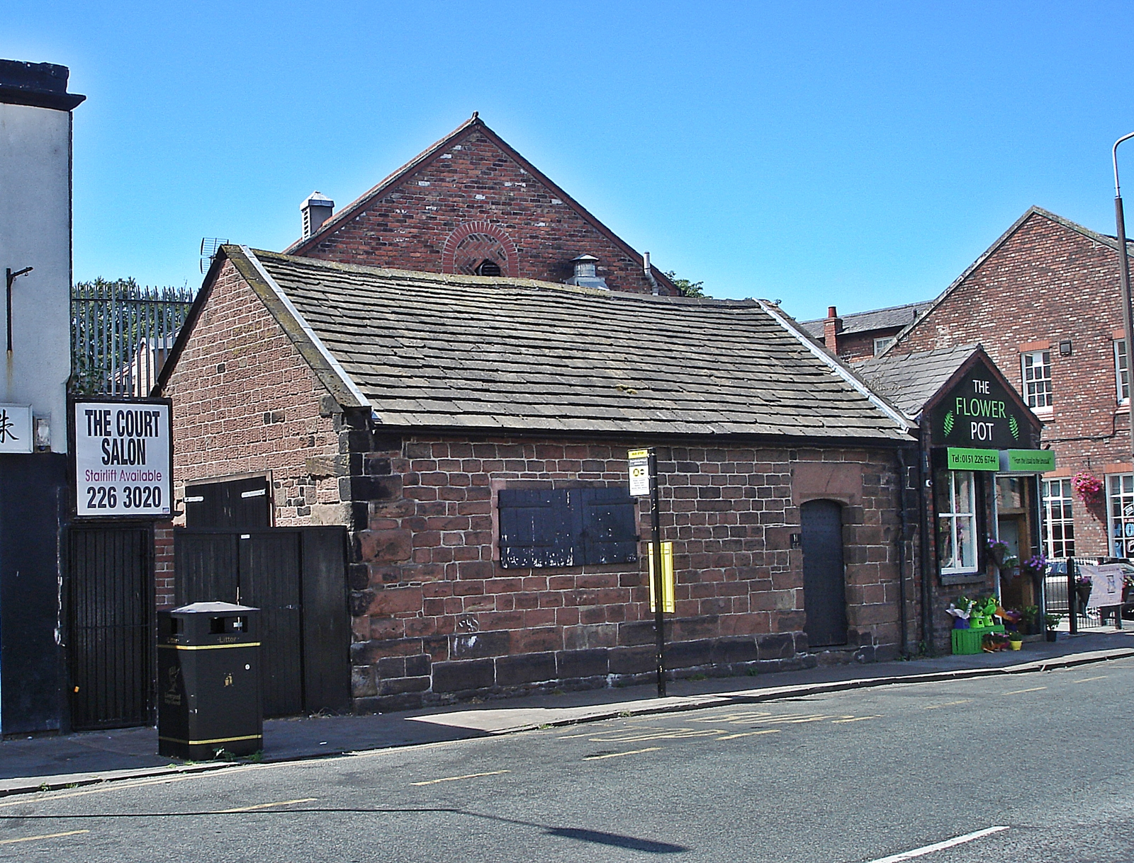 The Old Courthouse, West Derby, Liverpool. A Grade II* listed building dating from 1662.